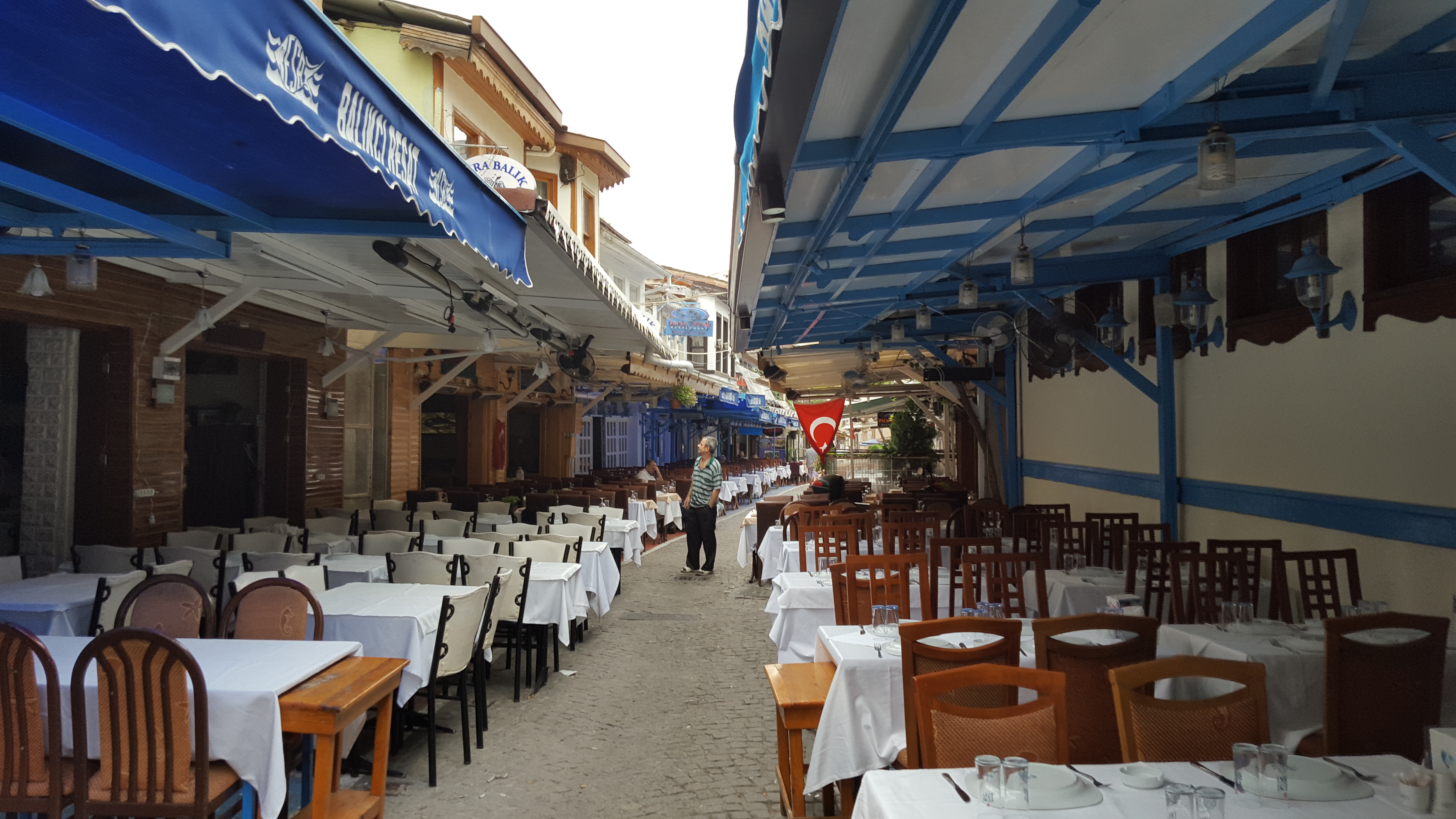 arap şükrü street in the city of Bursa, Turkey